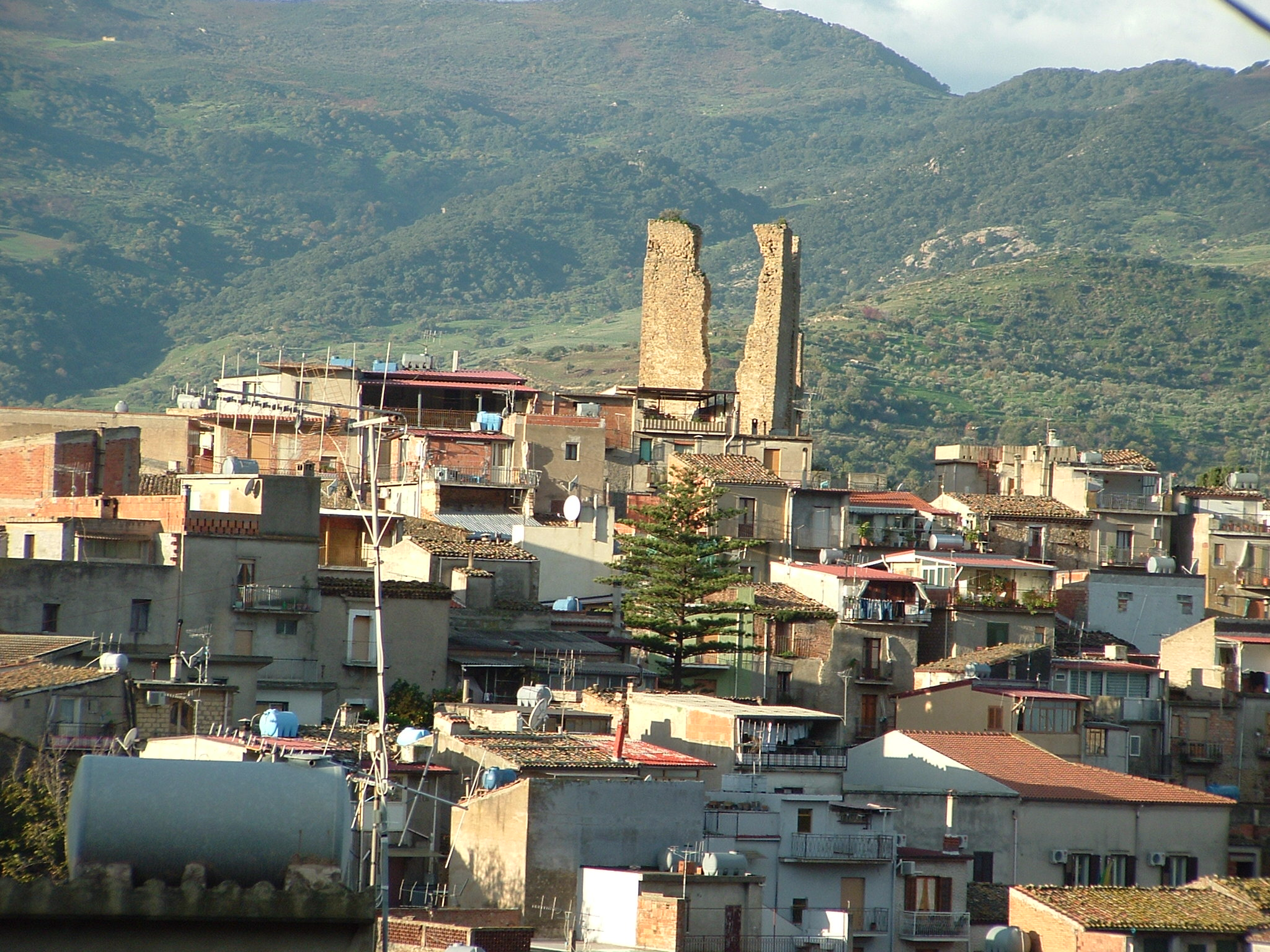 Panorama of Pettineo with the ruins of the castle Migaido, Province of Messina, Sicily, Italy